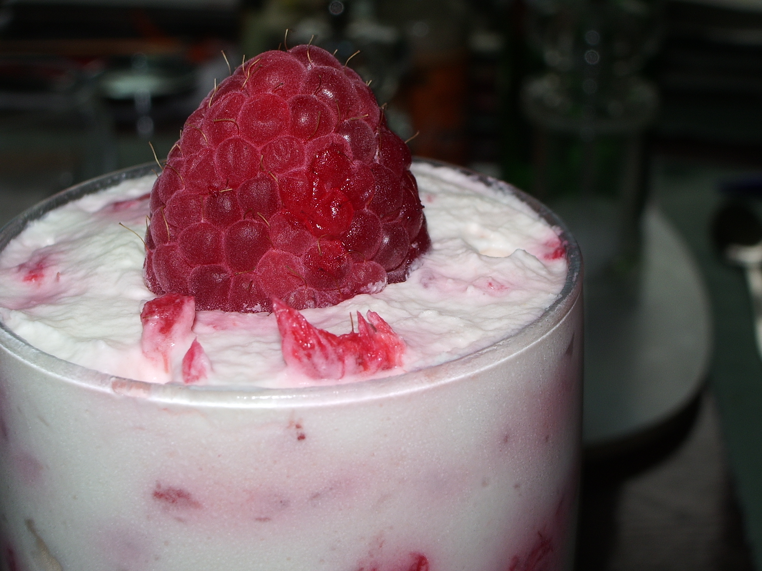 A fool (obsolete spelling foole) is an English dessert generally made by mixing puréed fruit, whipped cream, sugar, and possibly a flavouring agent like rose water.